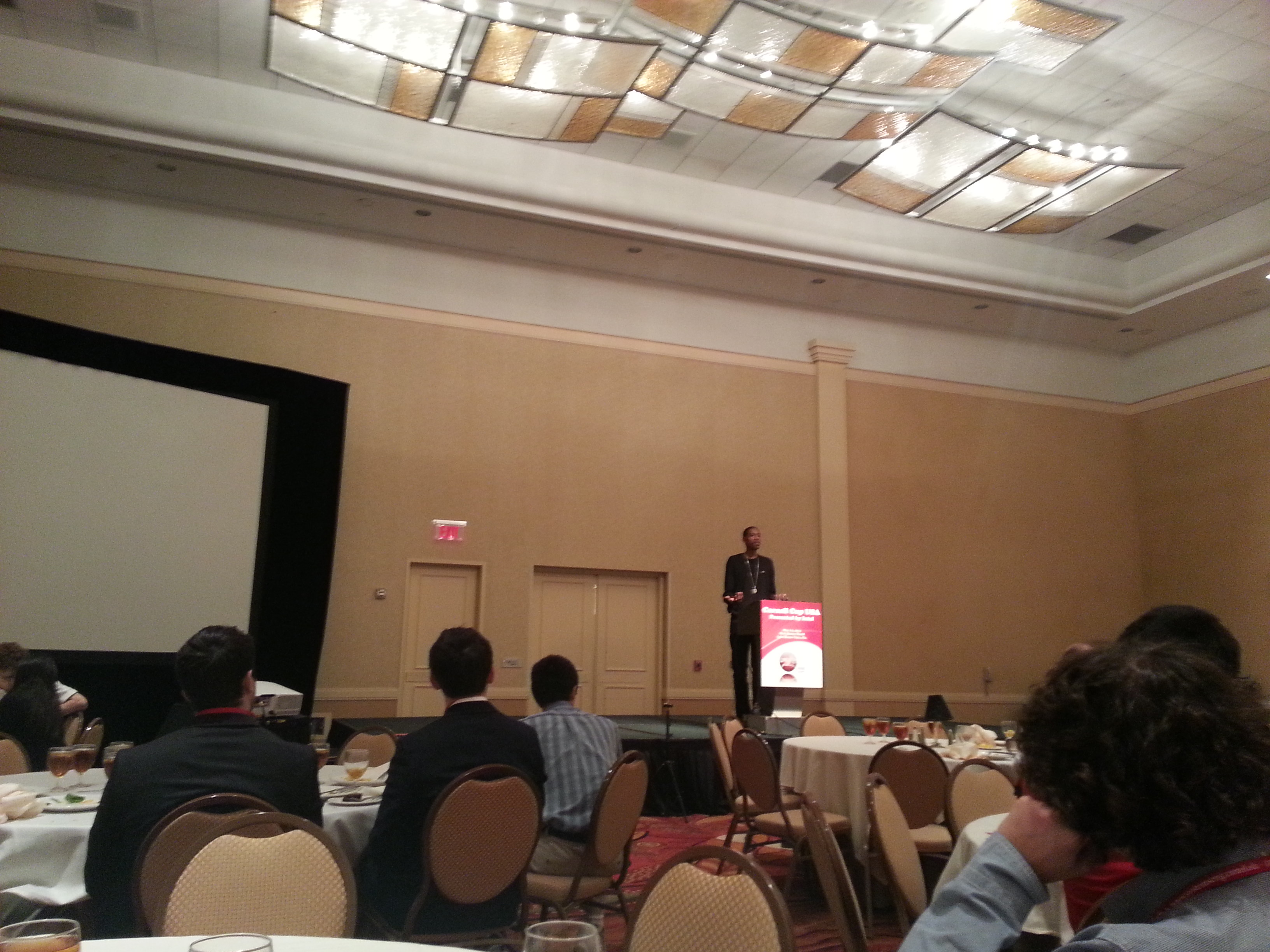 Young Guru speaking at the Cornell Cup USA 2014.